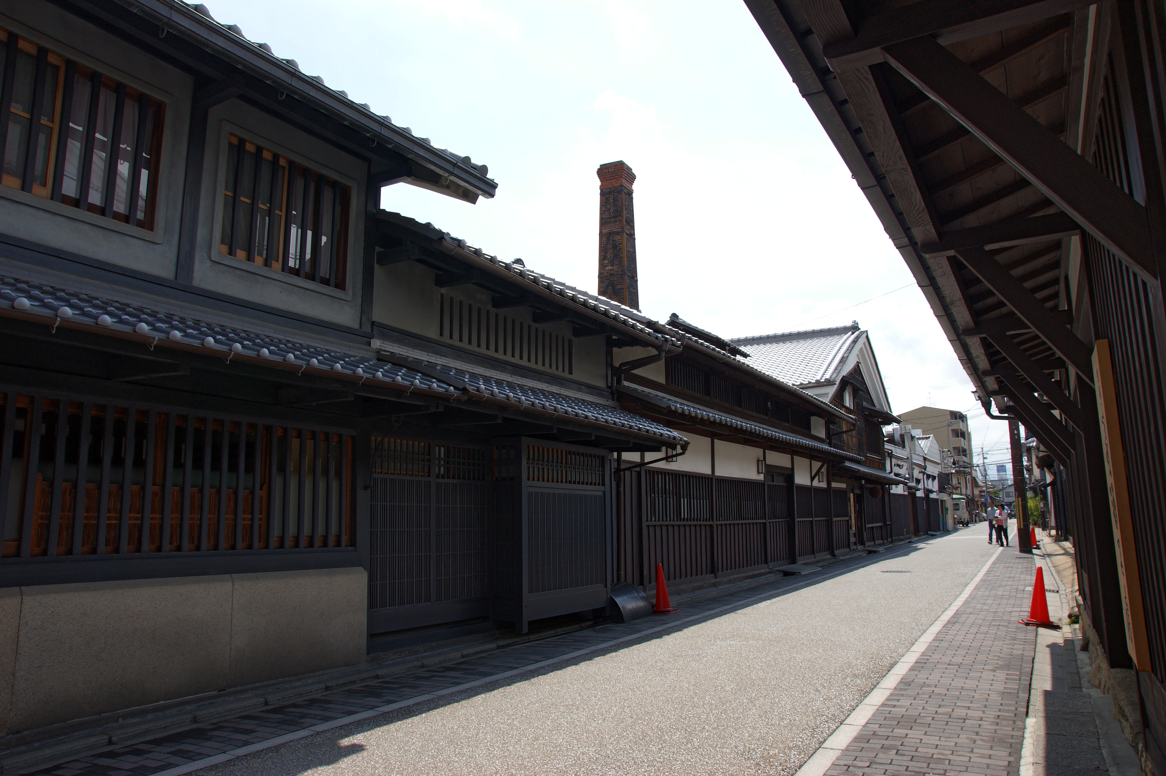 Kizakura Kappa Country in Fushimi, Kyoto, Kyoto prefecture, Japan